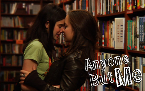 Still image from episode 10 of Season 1 Finale of Anyone But Me, with Rachael Hip-Flores as Vivian, and Nicole Pacent as Aster